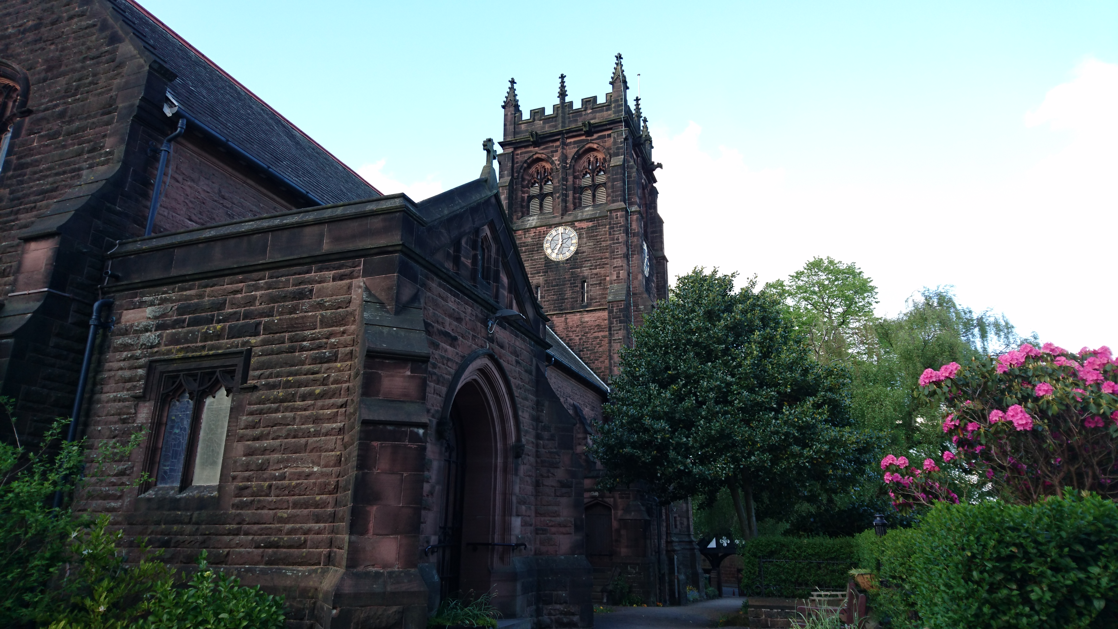 South porch and southeast tower of St Peter's parish church, Woolton, Liverpool, seen from the southwest